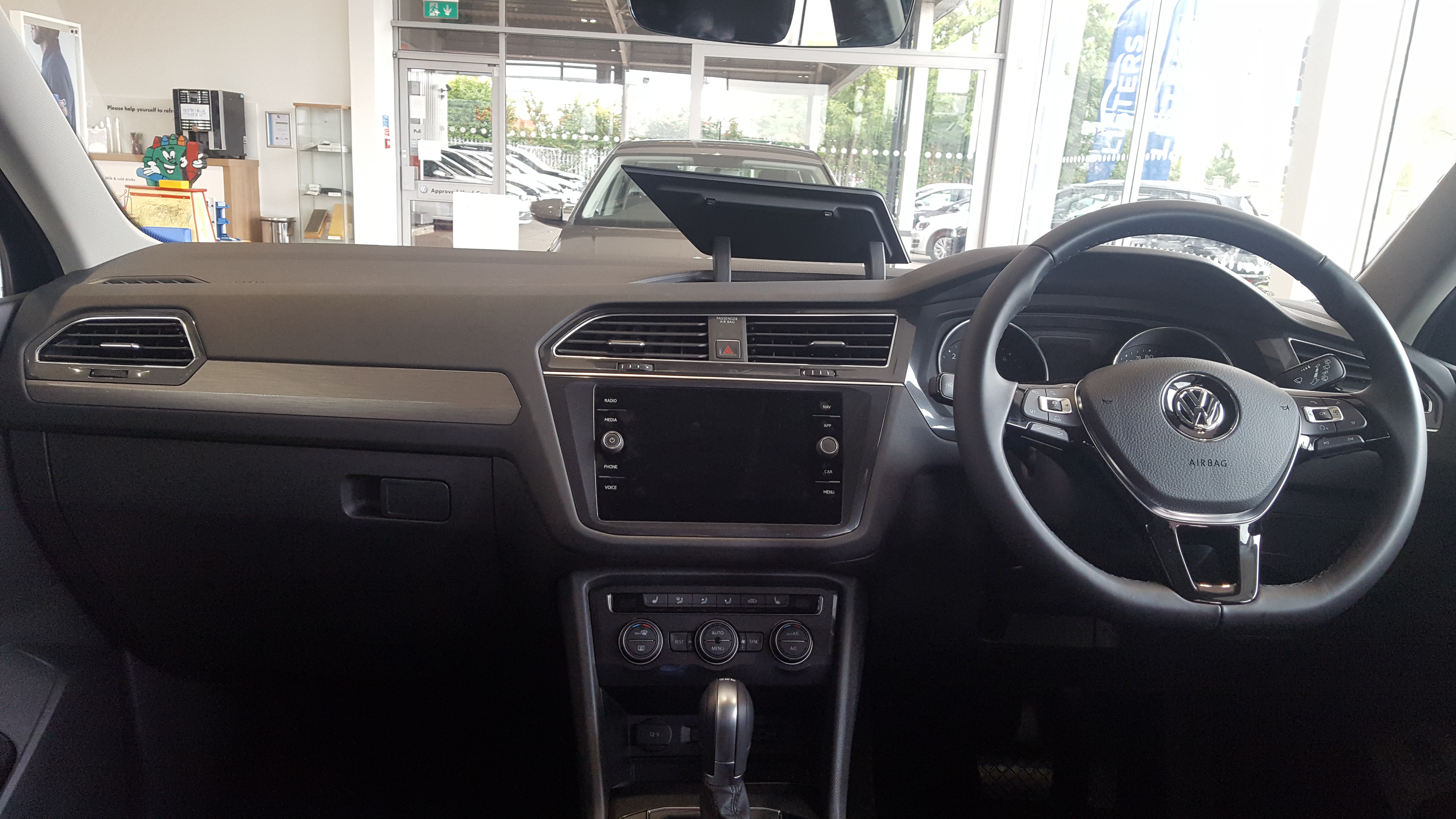 2018 Volkswagen Tiguan Allspace SE NAV TDi 2.0 Interior Taken in Leamington Spa